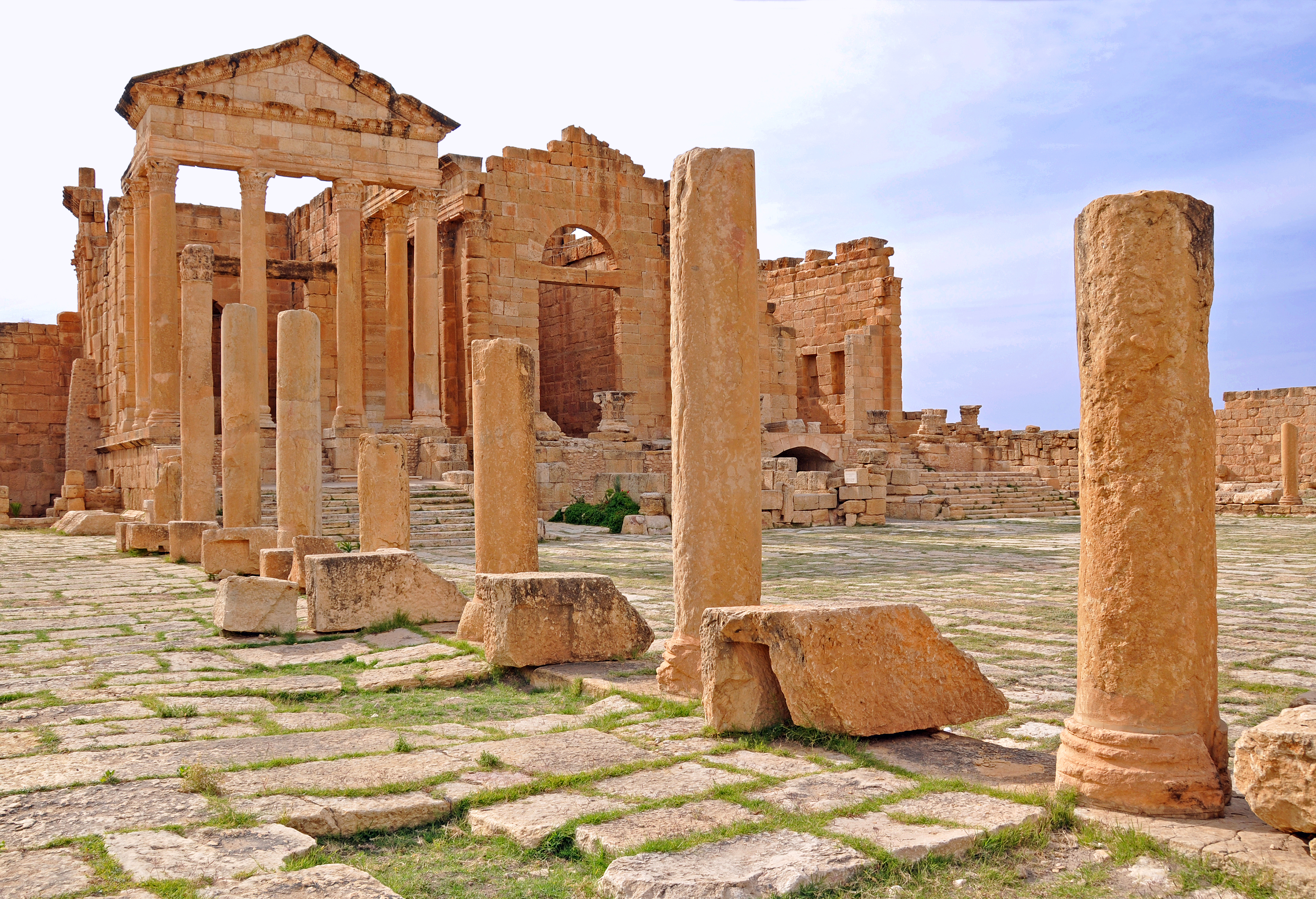 Sbeitla Forum and Capitoline temples